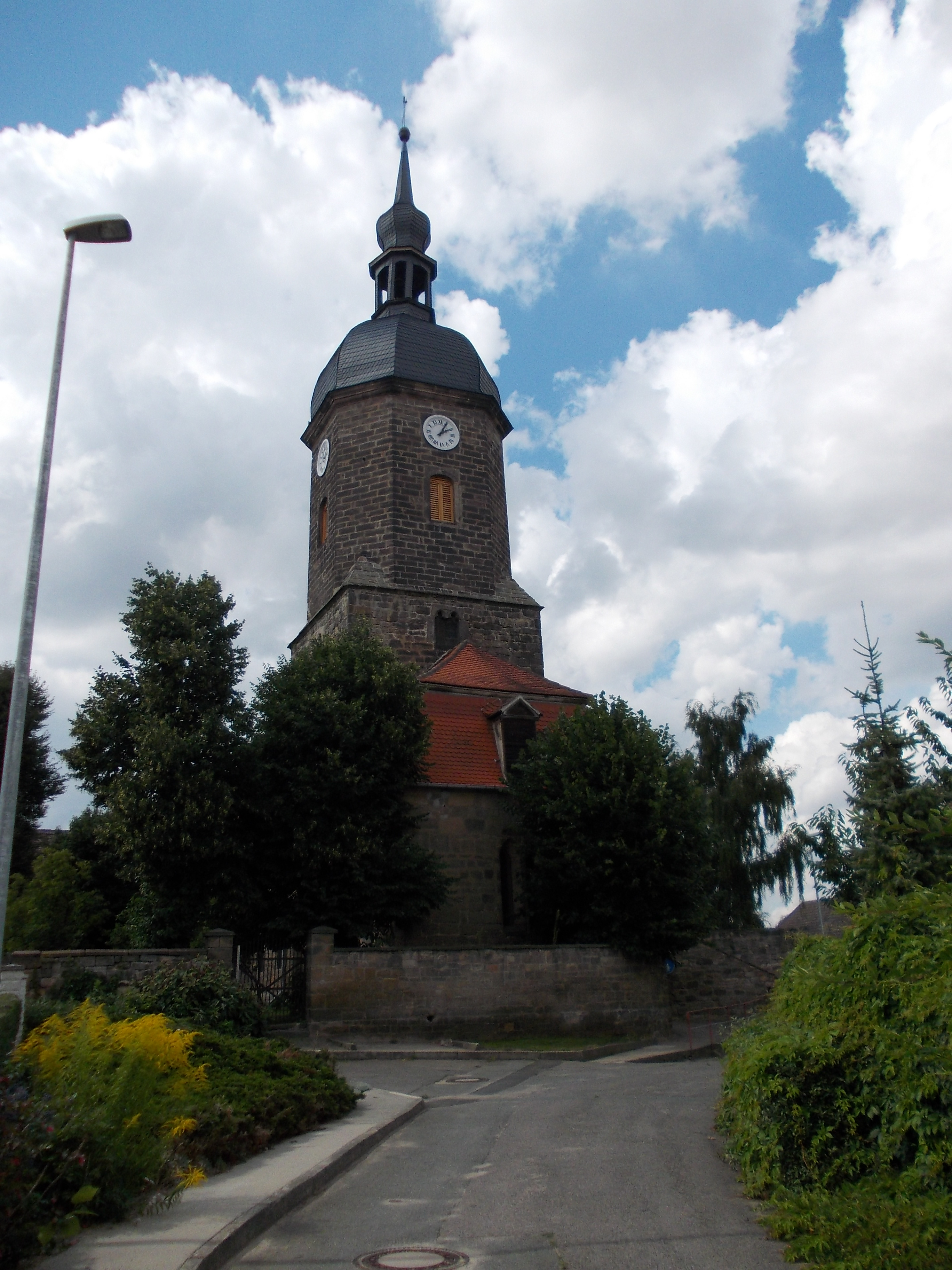 St. Nicholas Church in Weissenschirmbach (Querfurt, district of Saalekreis, Saxony-Anhalt)